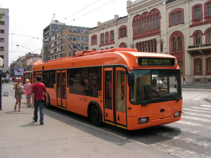 New Belkomunmas trolleybus for GSP